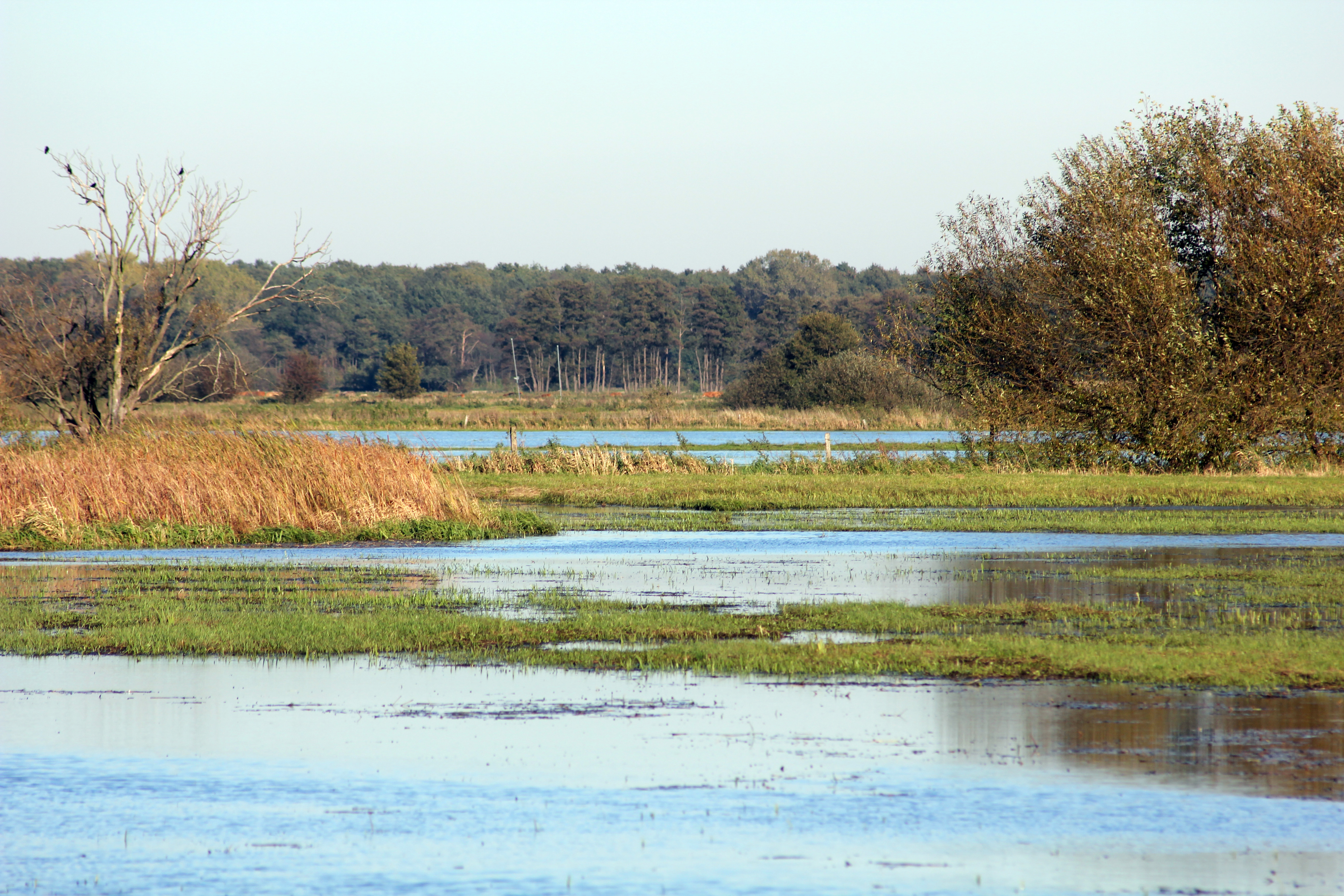 Wet meadows of the river Wümme.